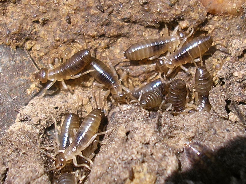 Series of mother and nymphs of earwig species Forficula_auricularia Location: Kollenberg, Sittard, Netherlands Keywords: Common Earwig Brood Care Larva Larvae